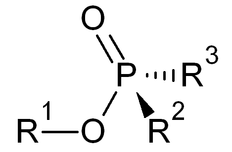 Phosphinate